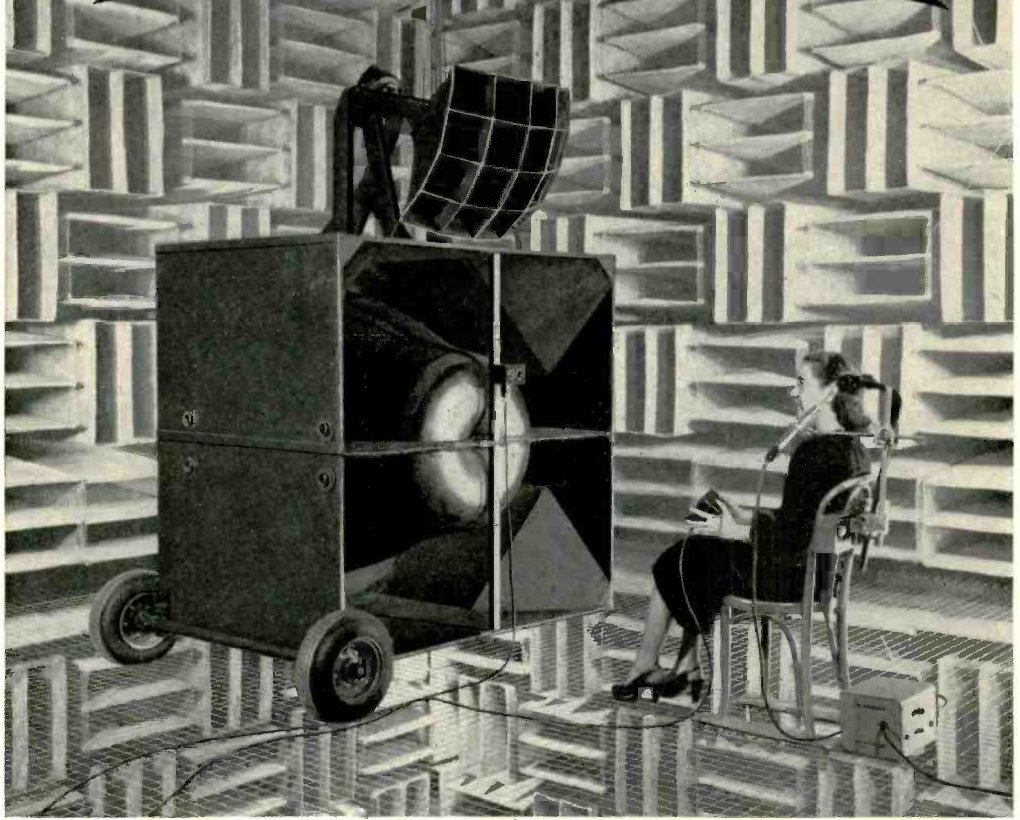 Hearing acuity experiments at AT&T in 1949. The test subject sits in an anechoic chamber in front of a high fidelity speaker. Sounds differing slightly in loudness and pitch are played, and she indicates which is louder by pressing a button in her hand. A tube in her ear canal conducts sound to a condenser microphone to monitor the intensity of sound actually reaching her eardrum. The subject and apparatus are supported on a metal screen in the center of the chamber, as a solid floor would disturb the sound patterns. The bass speaker at bottom is a folded horn speaker, with a multicell horn tweeter on top.